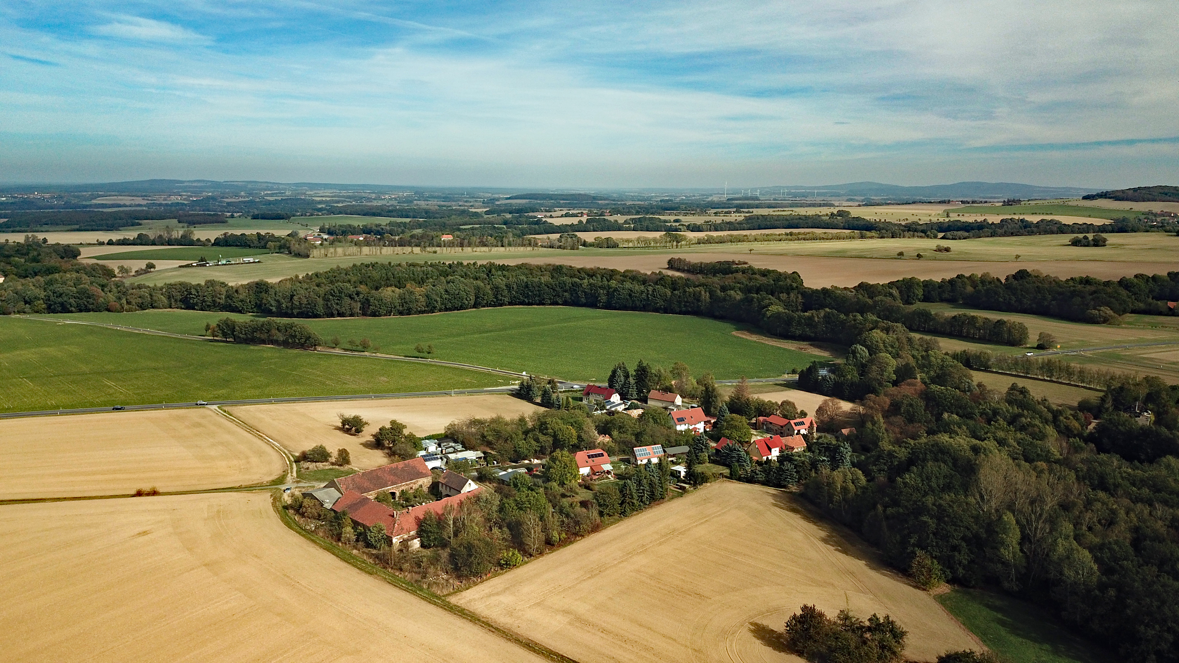 Neukuppritz (Hochkirch, Saxony, Germany) Hornjoserbsce: Powětrowy wobraz Nowych Koporc